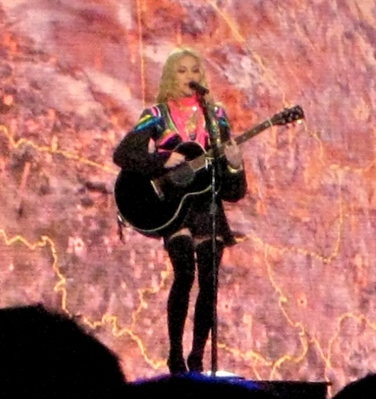 Madonna performing "Miles Away" on the Sticky & Sweet tour.